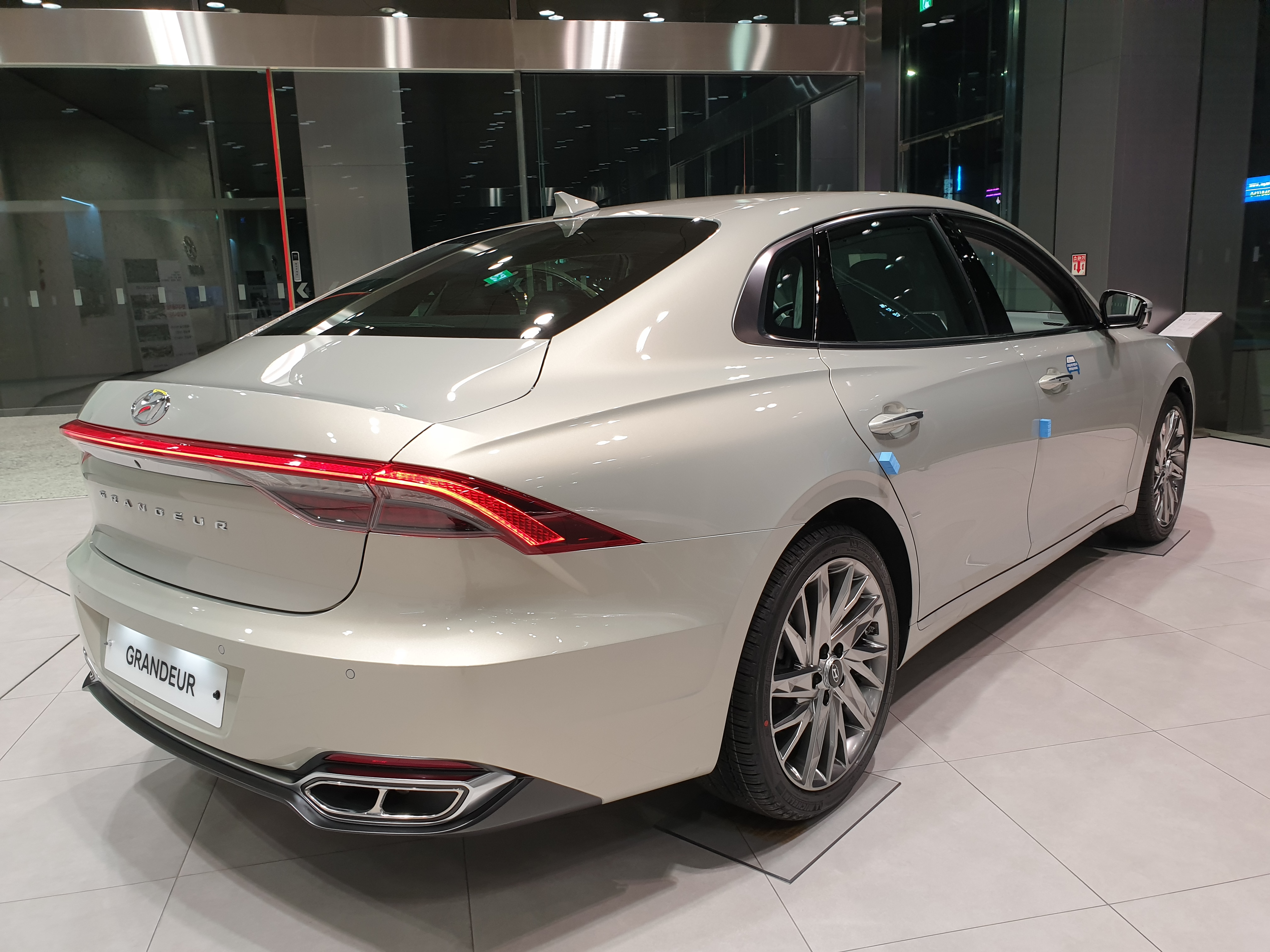 Hyundai Grandeur(Rear-side)